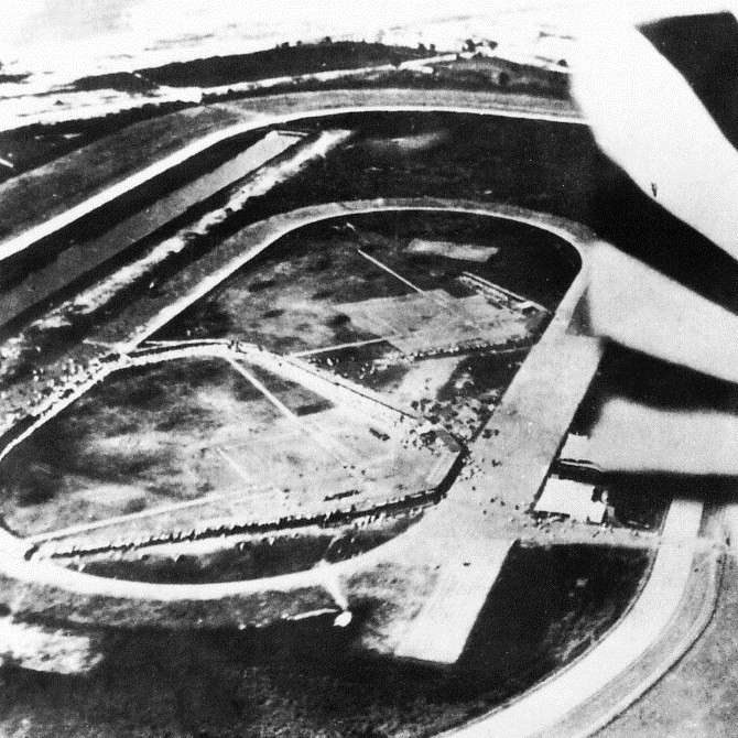 Naruo Stadium